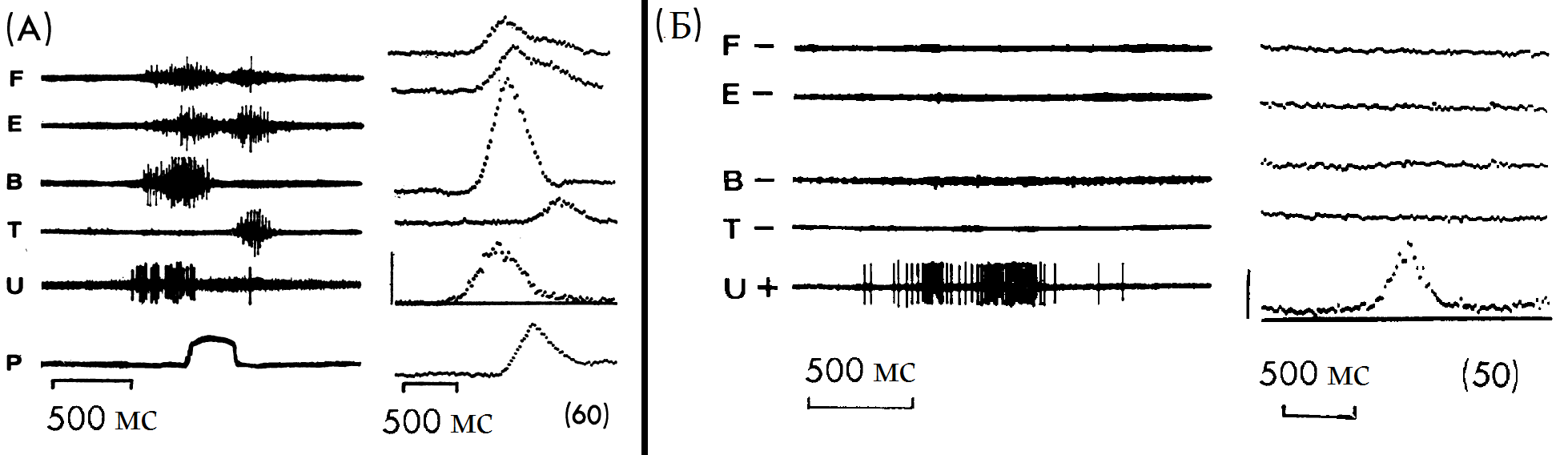 (A. Responses of precentral cell and arm muscles during active movement. Successive lines from top to bottom show activity of flexor carpi radialis (F), extensor carpi radialis (E), biceps (B), triceps (T), cortical unit (U), and the position of the elbow (P). A single trial is shown at left, and the averages over 60 successive trials at right. This cell fired before active flexion of the elbow. Vertical calibration bar equals 50 impulses per second. (B. Dissociation of the correlation between cell and muscle activity by reinforcing bursts of cell activity with simultaneous suppression of all muscle activity (8). After approximately 15 minutes of reinforcing successively better approximations to the required pattern-involving about 100 reinforced response patterns and an equal number of unreinforced responsesthe monkey repeatedly emitted bursts of cortical cell activity without any measurable EMG activity